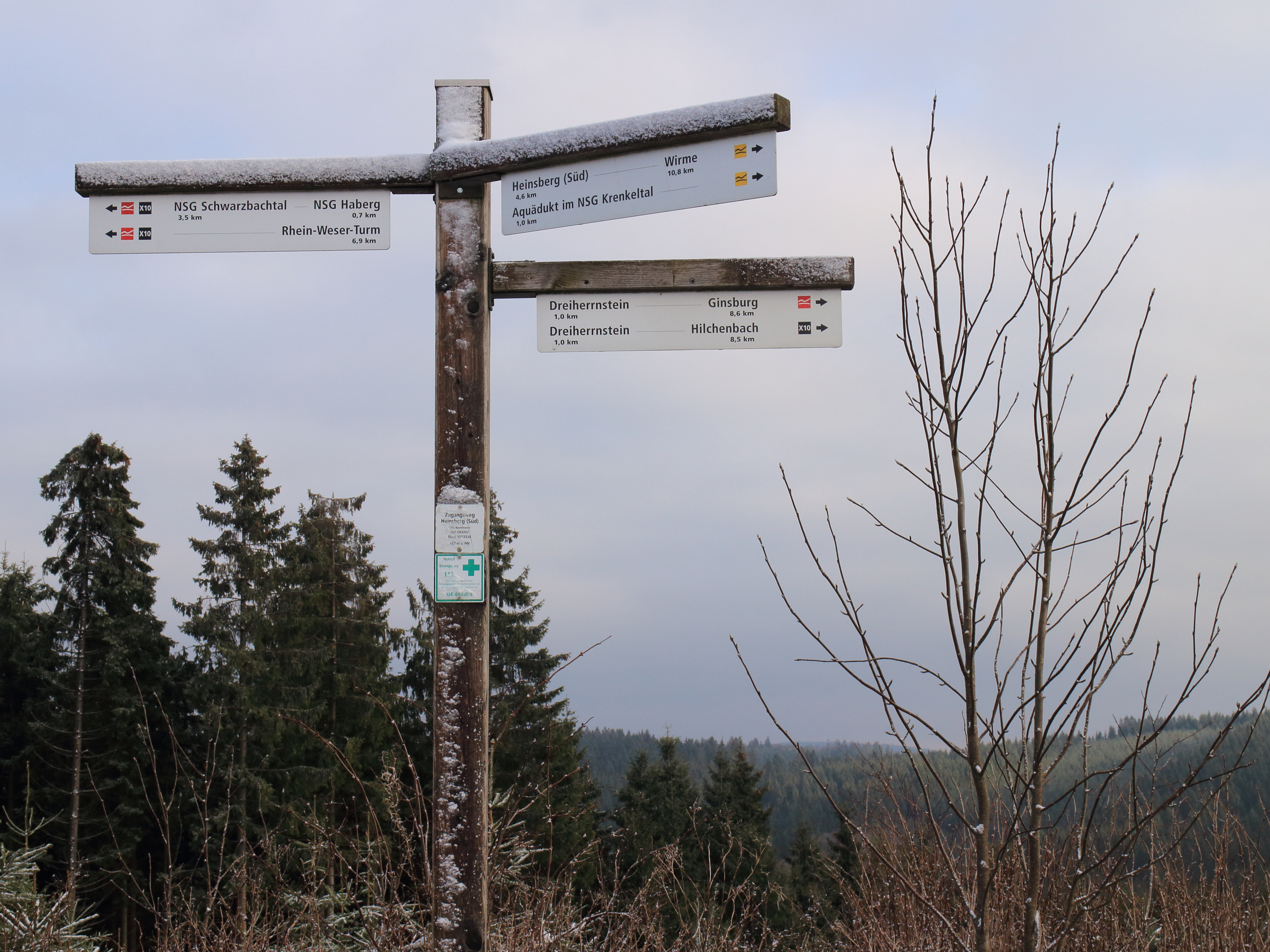 Hand pointer. Location, Sauerland.